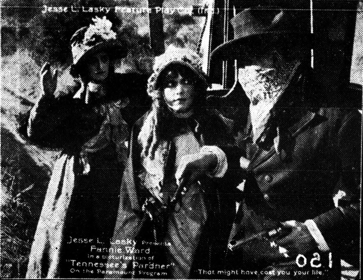 Tennessee's Pardner is a 1916 American Western film directed by George Melford and written by Marion Fairfax. This is a publicity photo published in a newspaper.